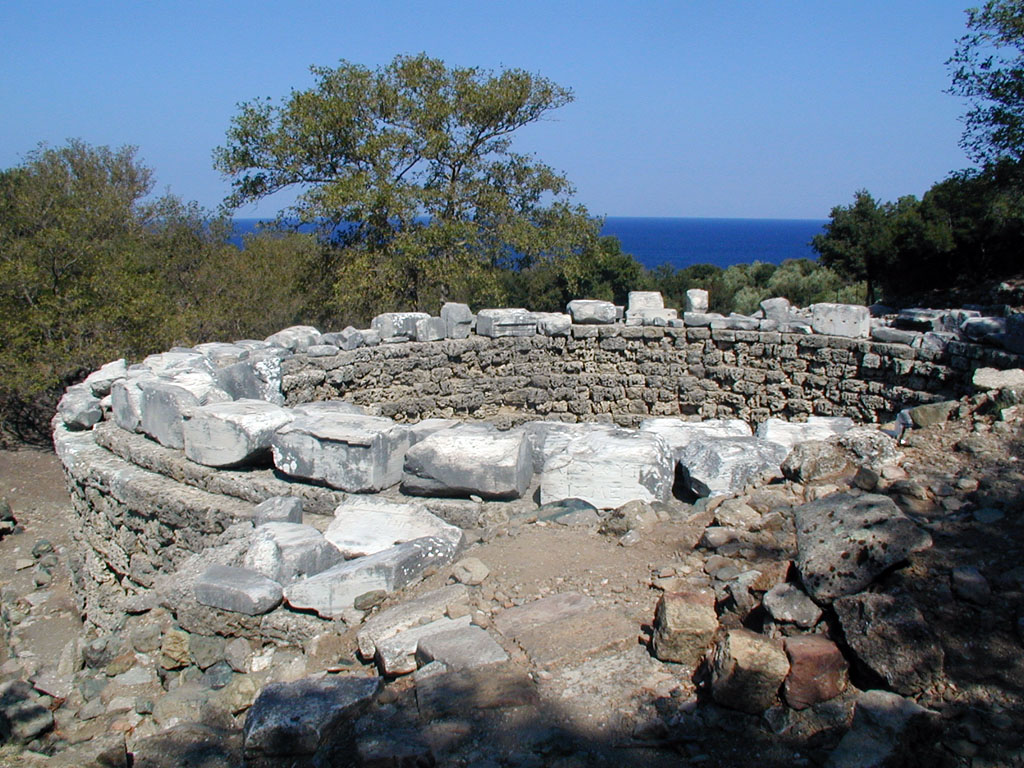 Remains of Arsinoe's rotunda in Samothraki. Photograph taken by Marsyas 16:47, 9 Apr 2005 (UTC).